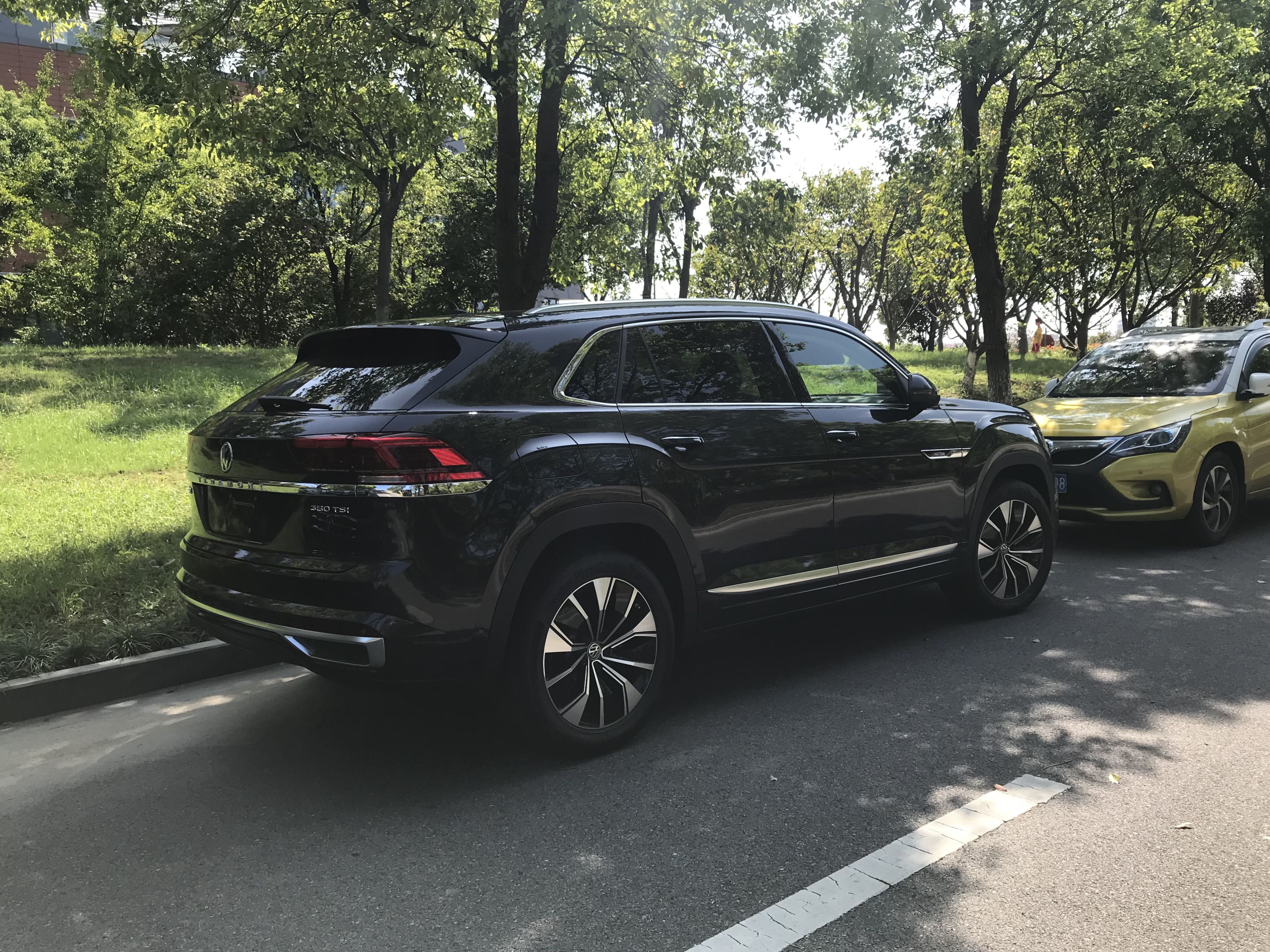 Volkswagen Teramont X rear (Volkswagen Atlas Cross Sport)